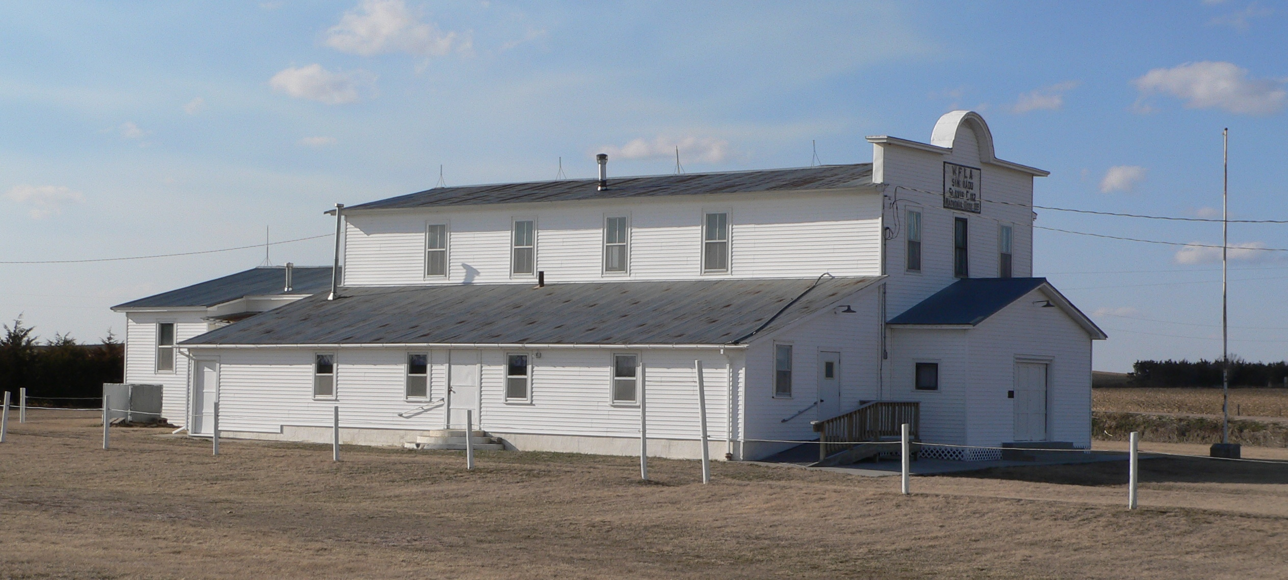 Rad Slavin cis. 112 Z.C.B.J. Hall in Valley County, Nebraska near Comstock; seen from the southeast. The building was constructed in 1909, and is listed in the National Register of Historic Places.